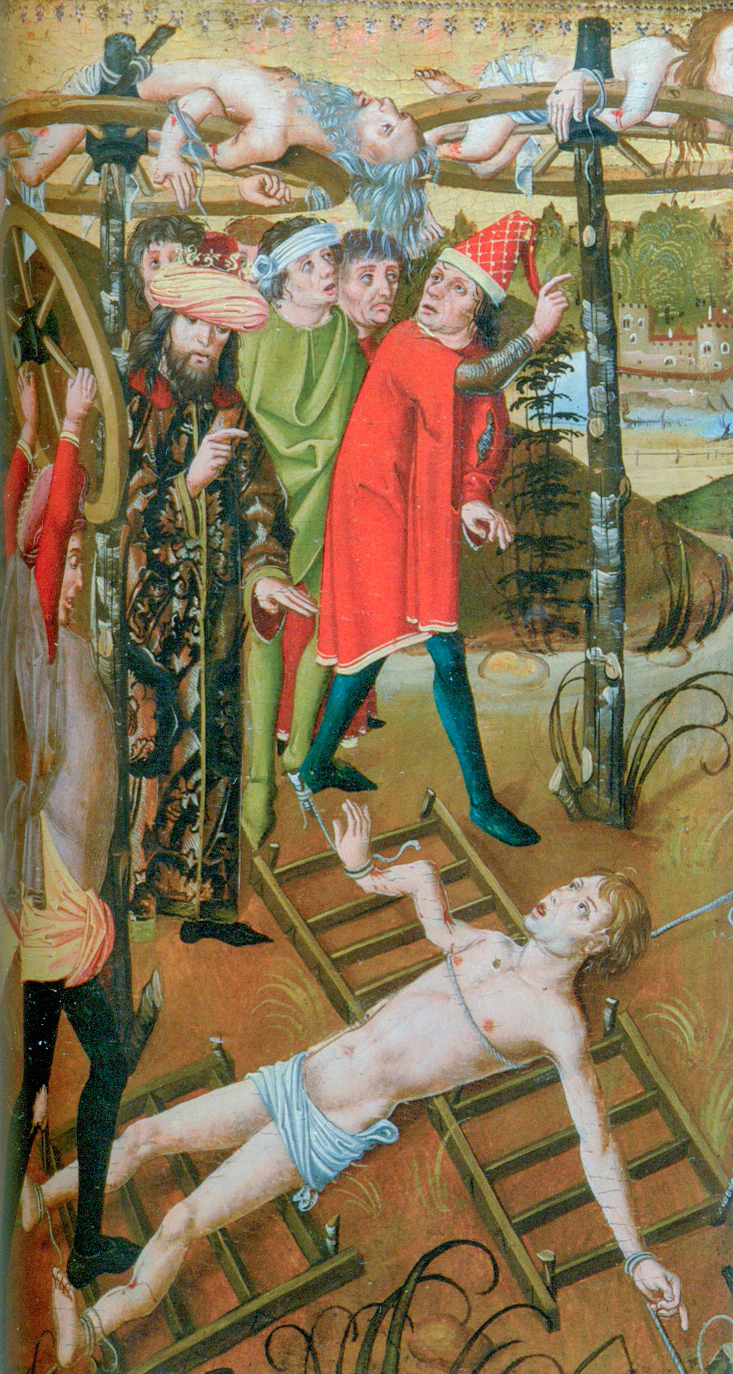 Breaking with the wheel